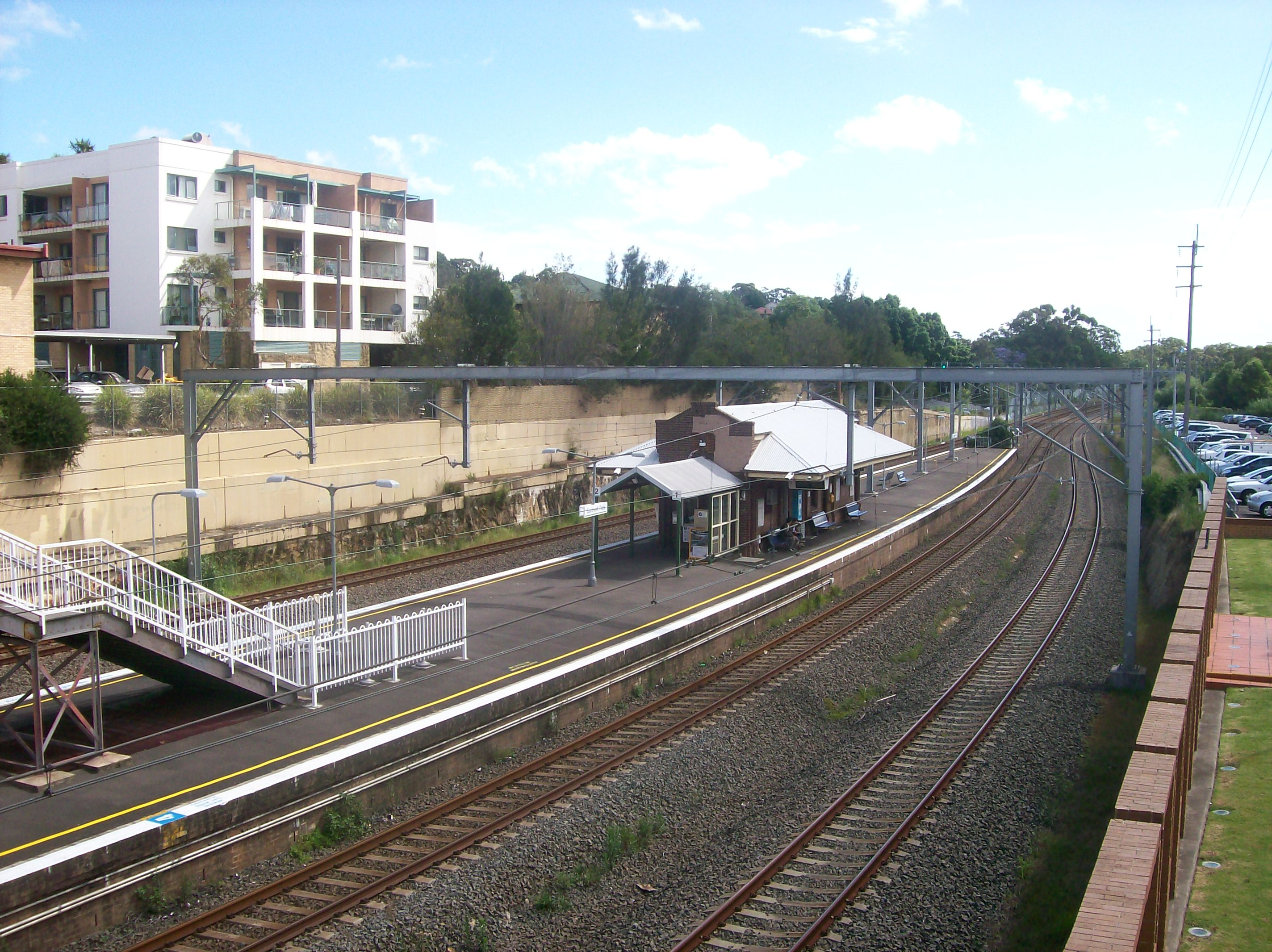 Bardwell Park railway station